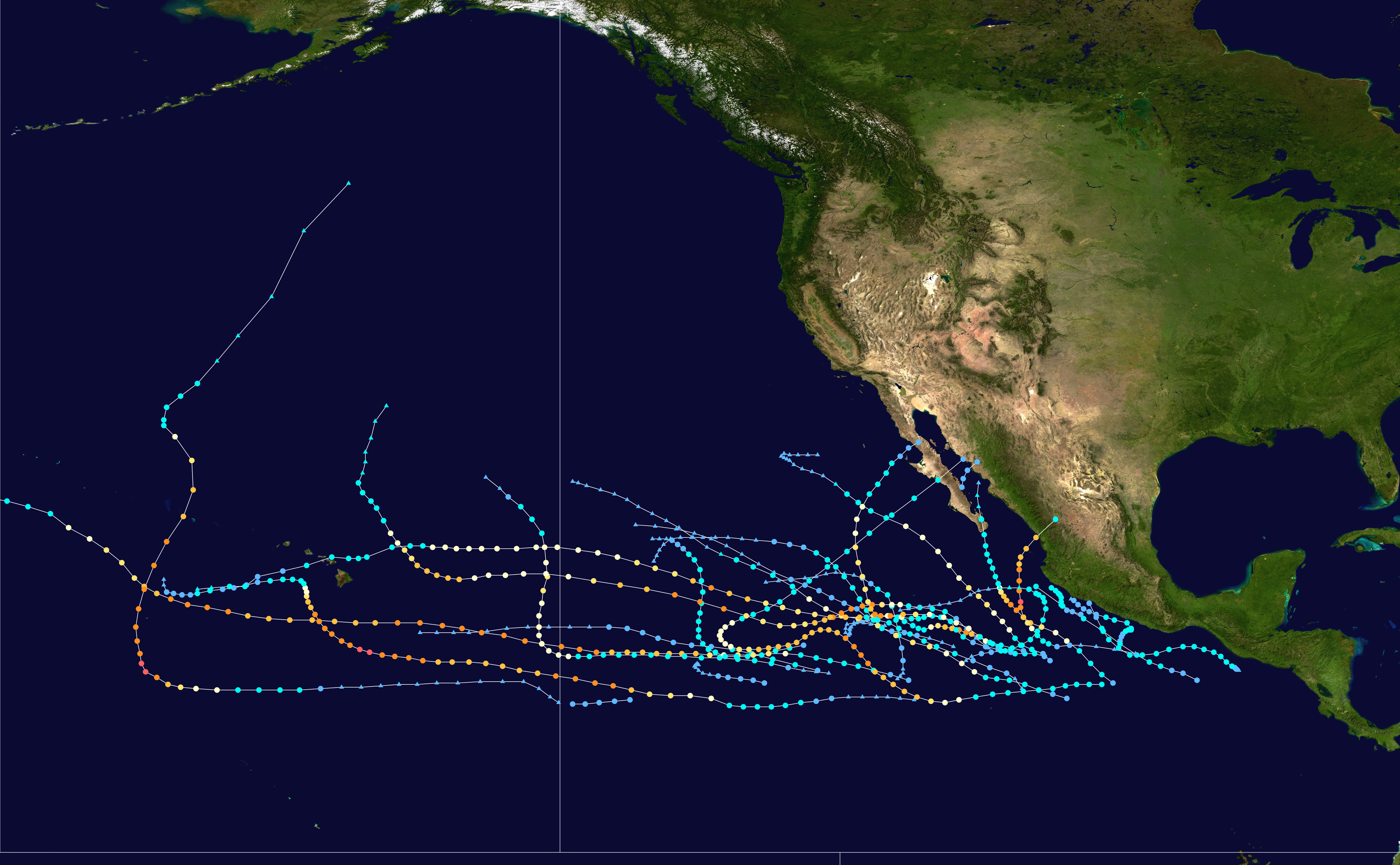 This map shows the tracks of all tropical cyclones in the 2018 Pacific hurricane season. The points show the location of each storm at 6-hour intervals. The colour represents the storm's maximum sustained wind speeds as classified in the Saffir-Simpson Hurricane Scale (see below), and the shape of the data points represent the type of the storm. Saffir–Simpson scale Tropical depression≤38 mph≤62 km/h Category 3111–129 mph178–208 km/h Tropical storm39–73 mph63–118 km/h Category 4130–156 mph209–251 km/h Category 174–95 mph119–153 km/h Category 5≥157 mph≥252 km/h Category 296–110 mph154–177 km/h Unknown Storm type Tropical cyclone Subtropical cyclone Extratropical cyclone / Remnant low / Tropical disturbance / Monsoon depression